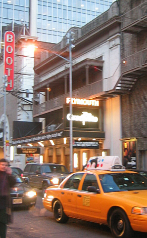 Plymouth Theatre (now the Gerald Schoenfeld Theatre), showing The Graduate 236 West 45th Street, Manhattan, New York City